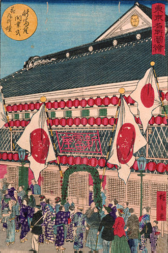 Tōkyō Meisho Zue Shintomi-za Kaigyō-shiki Hana no Gasu-tō (“The Grand Opening of Shintomi Theater and Its Fabulous Gas Lights”)